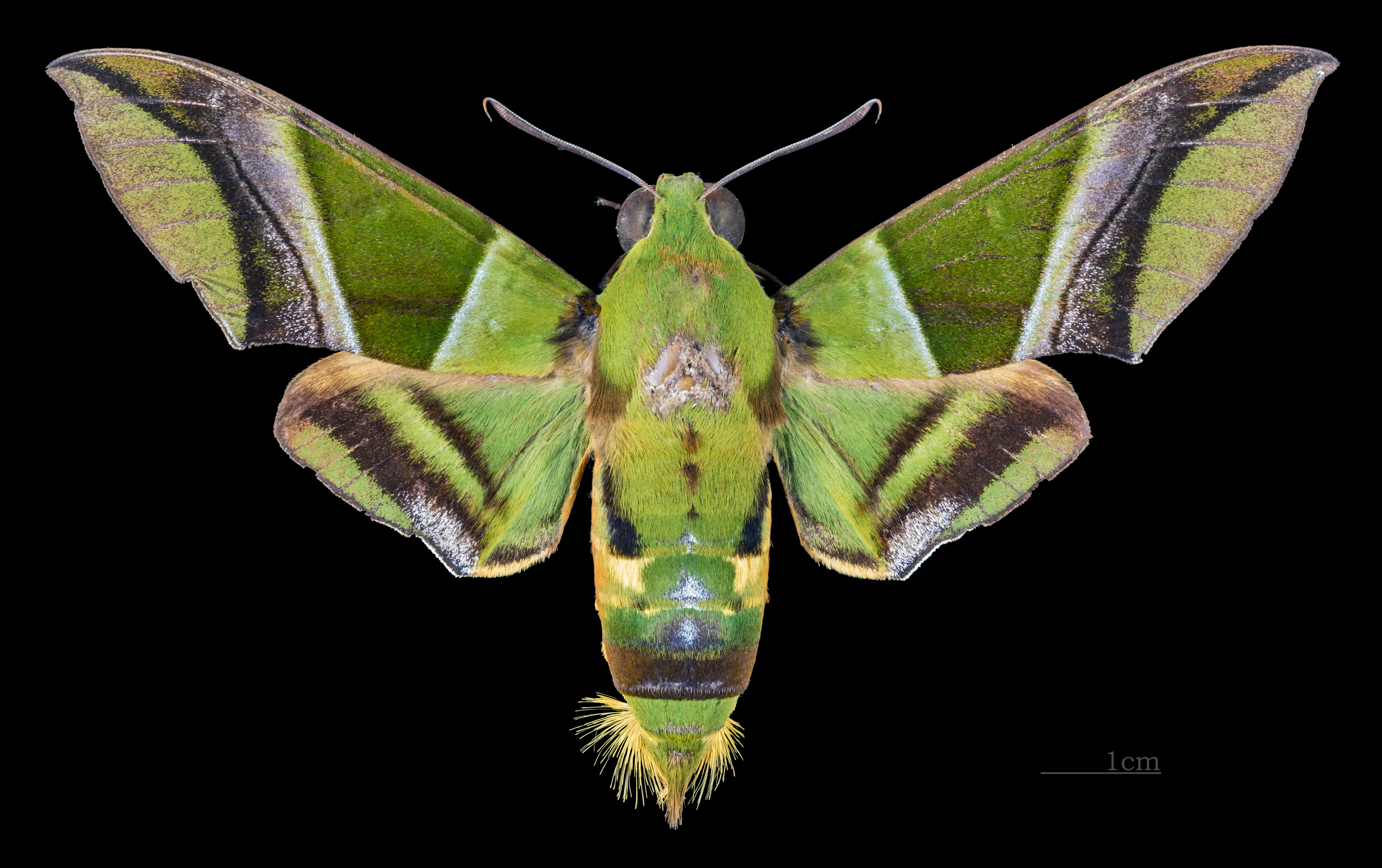 Oryba kadeni - Dorsal side